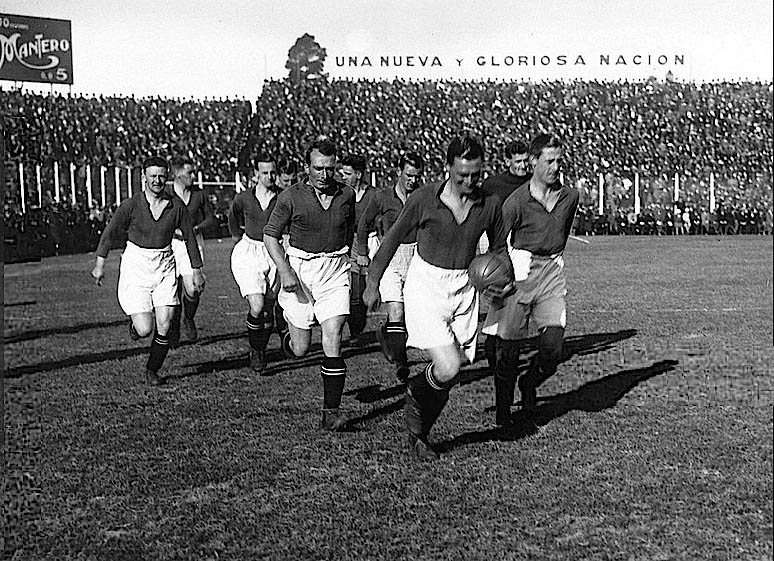 Motherwell F.C. entering the River Plate field to play a Capital Federal (Buenos Aires) combined. It was the first game of the Scotish team's 1928 tour on Argentina